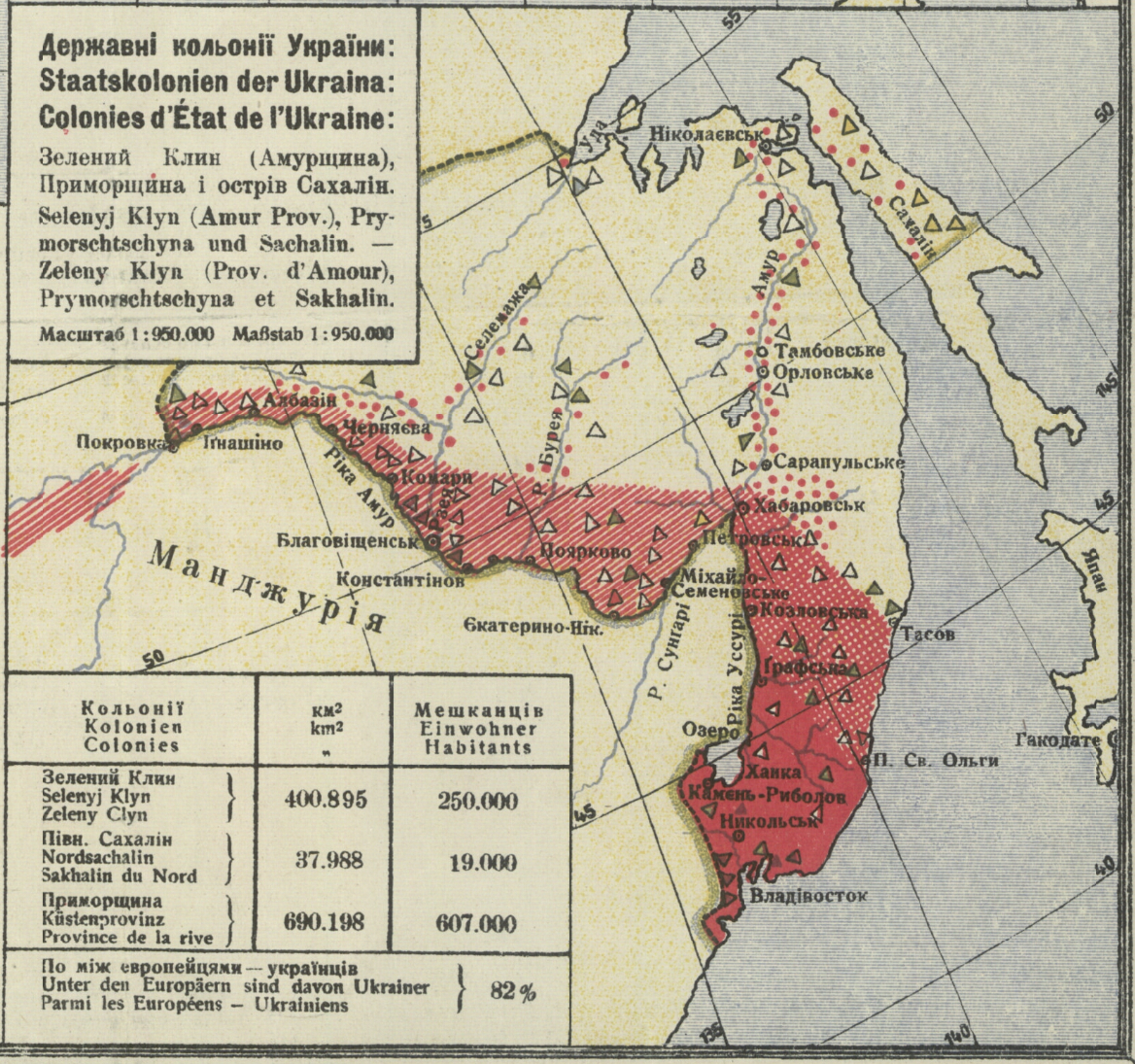 Map "State colonies of Ukraine" = "Державні кольонії України" = "Staatskolonien der Ukraina" = "Colonies d'État de l'Ukraine", 1 : 950 000, 13x14 cm. It is a fragment from the map "World map" by Yuri Hasenko published in Vienna in 1920.